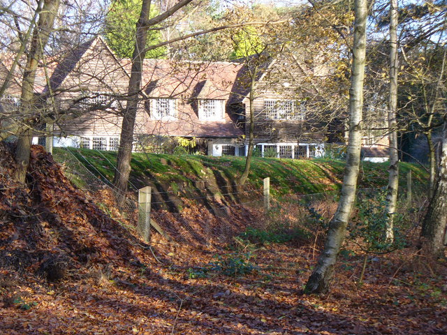 House in the Woods, Blackheath Wooden boarded house in secluded position in the Blackheath woodland. A dense network of paths covers the heath.